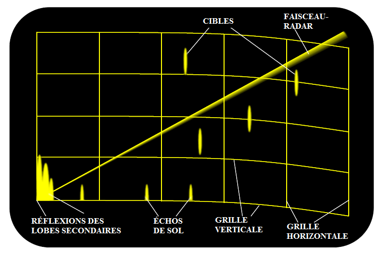 Old type of Range-height Indicator (RHI) on a cathodic screen (typical of the 1950's to 1970's